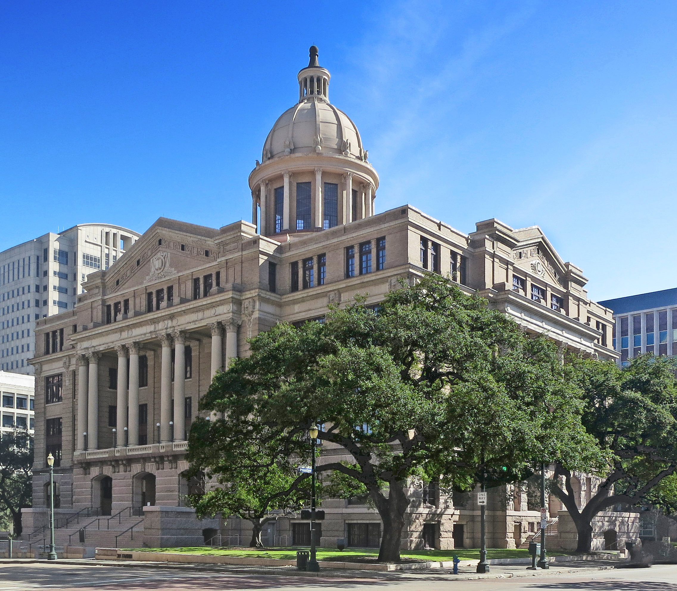 Harris County Courthouse — in Houston, Harris County, Texas. This site has served as the courthouse square for Harris (Originally Harrisburg) County since the completion of the first county courthouse, a two-story frame structure, in April 1838. Later courthouses were constructed on this site in 1851, 1860 and 1884. The present structure, which was built in 1909-1910, served as the fifth Harris County Courthouse at this location. It was designed in 1909 by Charles Erwin Barglebaugh, an associate in the prominent Dallas architectural firm of Lang and Winchell. The building features a Neoclassical style design. Outstanding details include the domed roof, ornate central projections, or risalits, with Corinthian columns, and elaborate ornamentation of terra cotta, limestone and masonry. Building materials include pink Texas granite and light brown St. Louis brick. During construction of the courthouse, county offices were housed in a nearby theater. Shortly after a new criminal courthouse and jail facility was built east of the square in 1952, this structure was remodeled and used as the Harris County Civil Courts Building. Beginning in 2009, the county restored the exterior and interior public spaces to their original 1910 appearances. Now in its second century serving the citizens of Harris County, the 1910 courthouse is a dramatic example civic architecture and a symbol of Harris County's dynamic growth in the early part of the twentieth century. The Harris County Civil Courts Building is in the National Register of Historic Places in Houston, Texas.